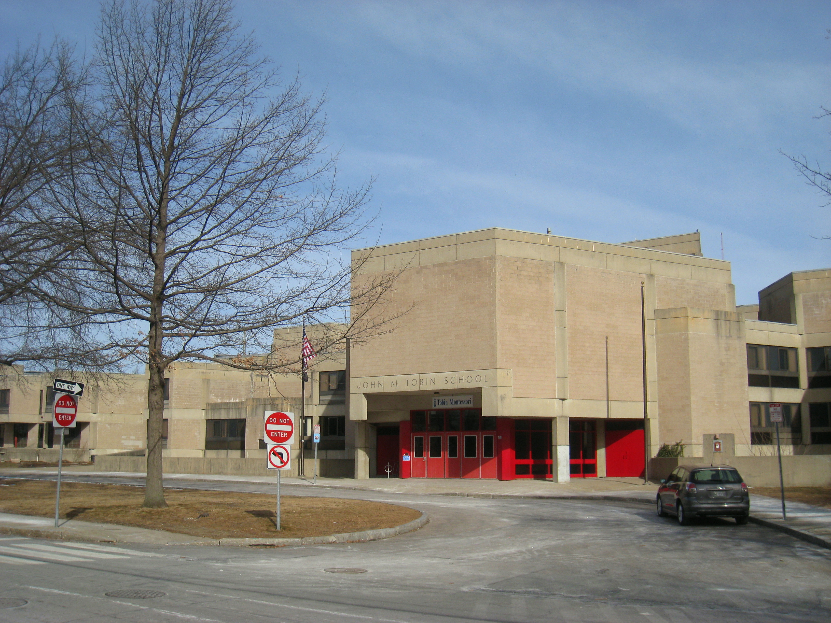 John M. Tobin School, 197 Vassal Lane, Massachusetts, USA.